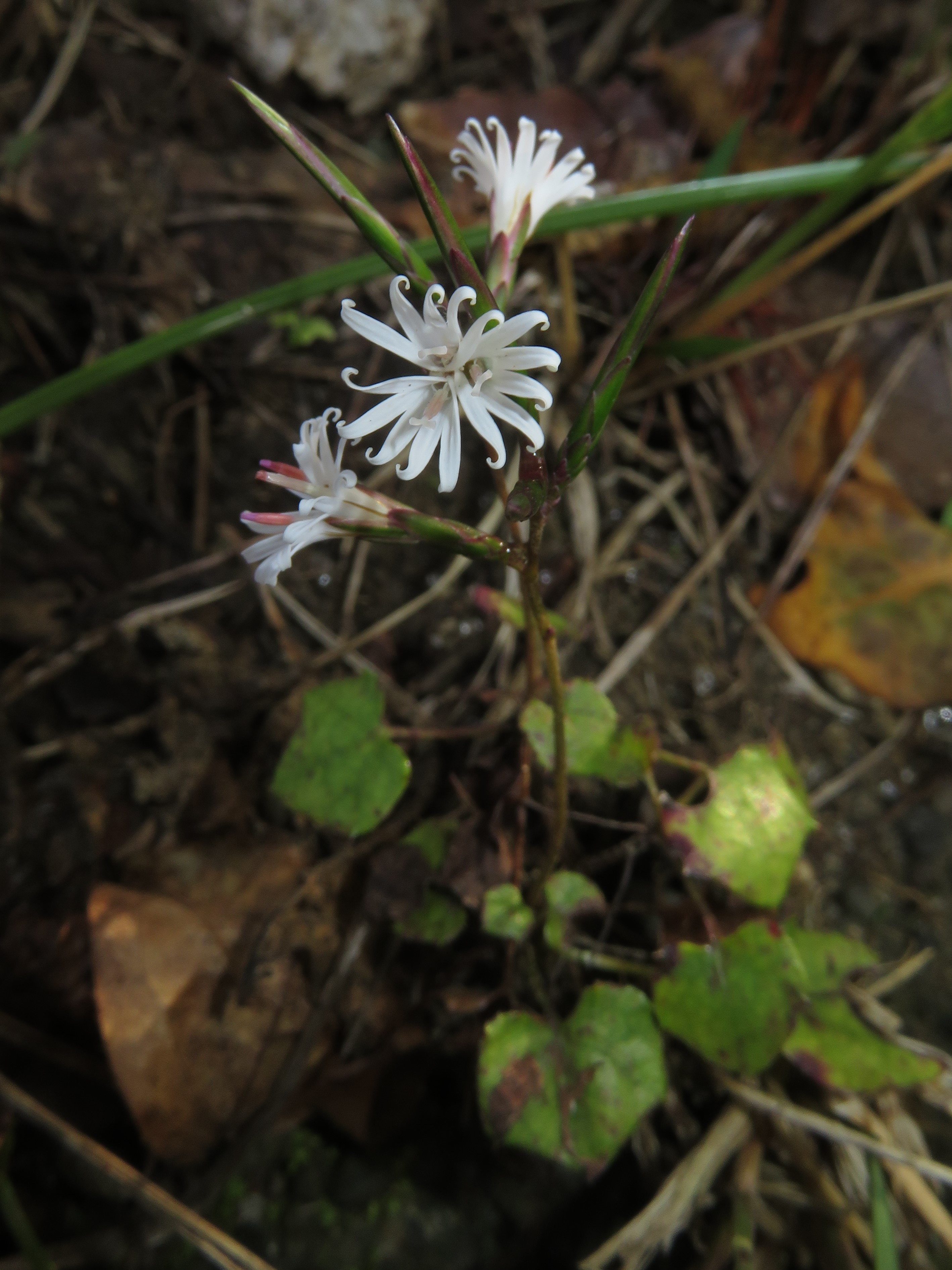 Ainsliaea apiculata, Aizu area, Fukushima pref., Japan